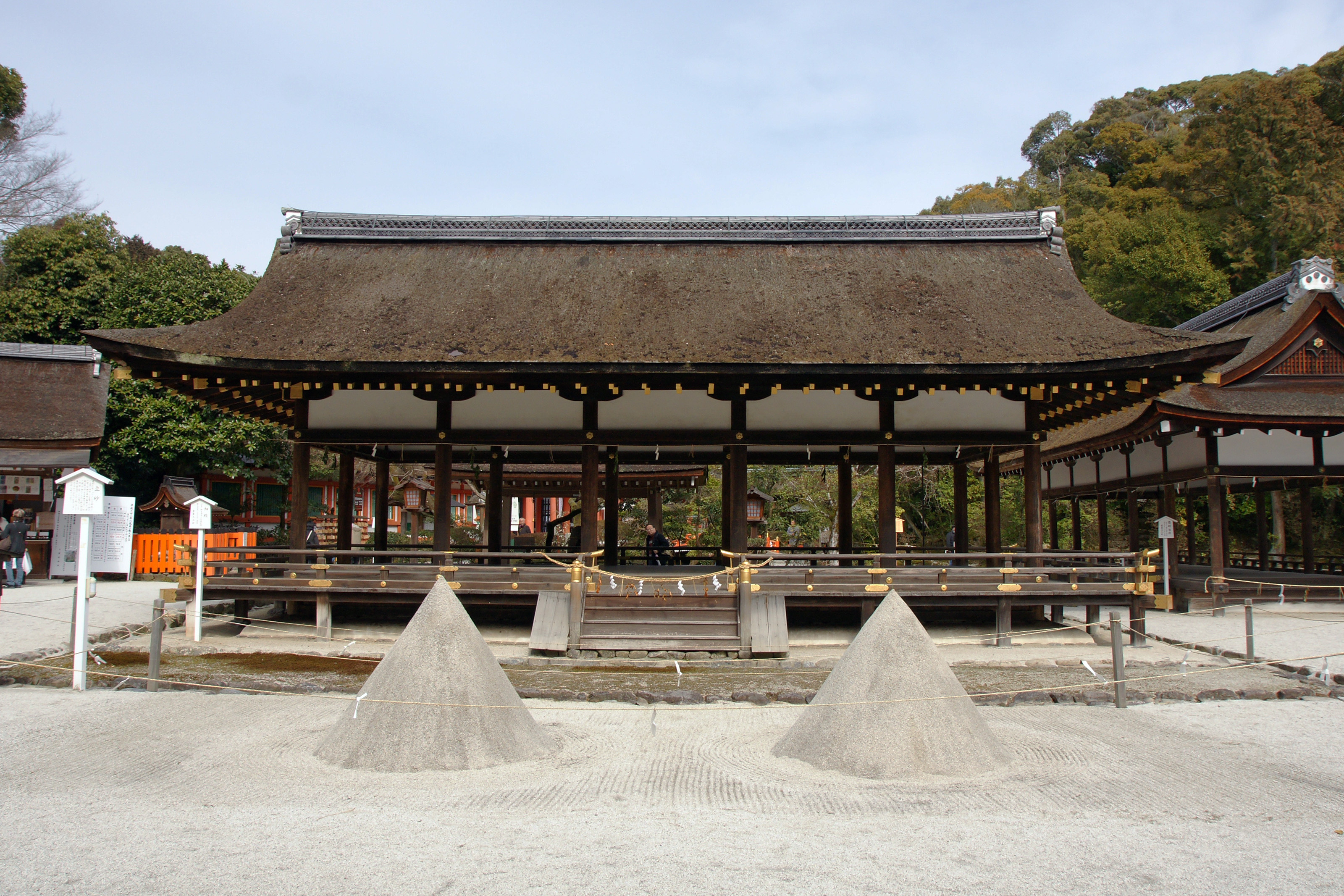 Kamowakeikazuchi-jinja (Kamigamo-jinja) in Kita-ku, Kyoto, Kyoto Prefecture, Japan